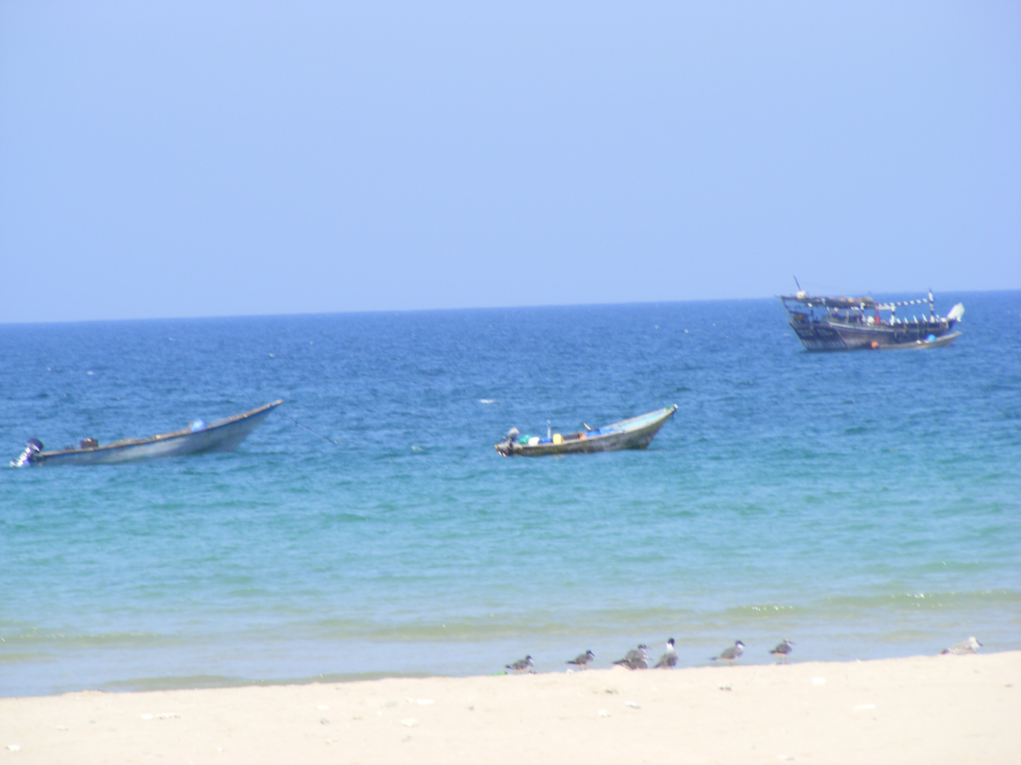 Laasqoray Beach with crystal clear water